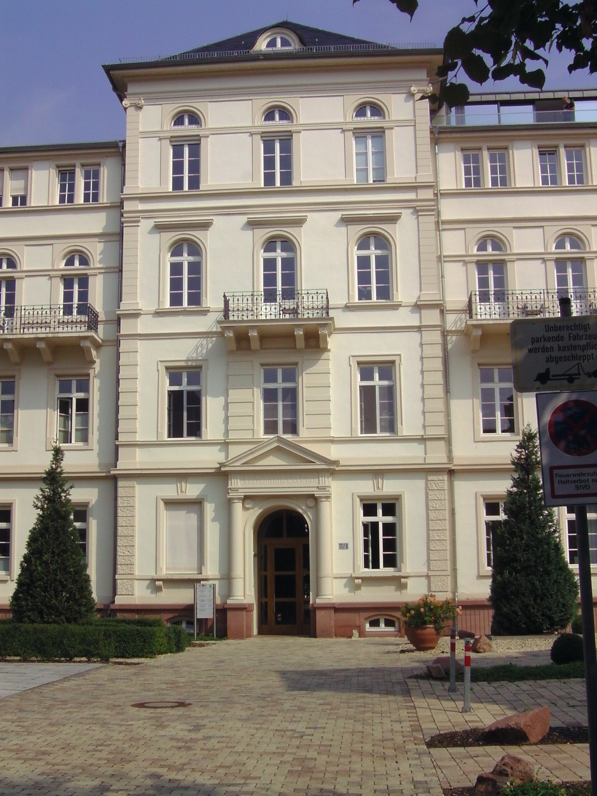 Campus Bergheim Luisen Heilanstalt, was a famous children's hospital of the university, today a privat hospital